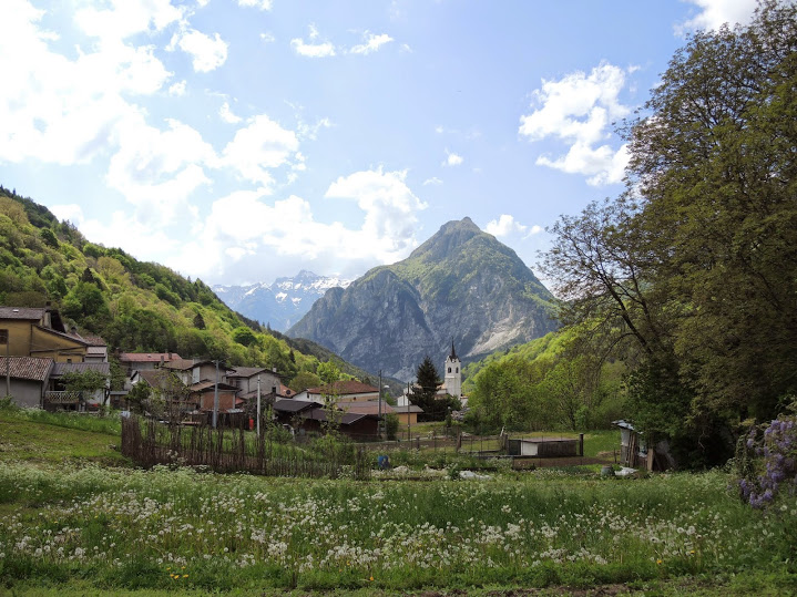 Dordolla in the Val d'Aupa in the Carnic Alps, community Moggio Udinese / Friuli-Venezia Giulia / Italy / EU. View to the south. In the background the Plauris (1.958 m).